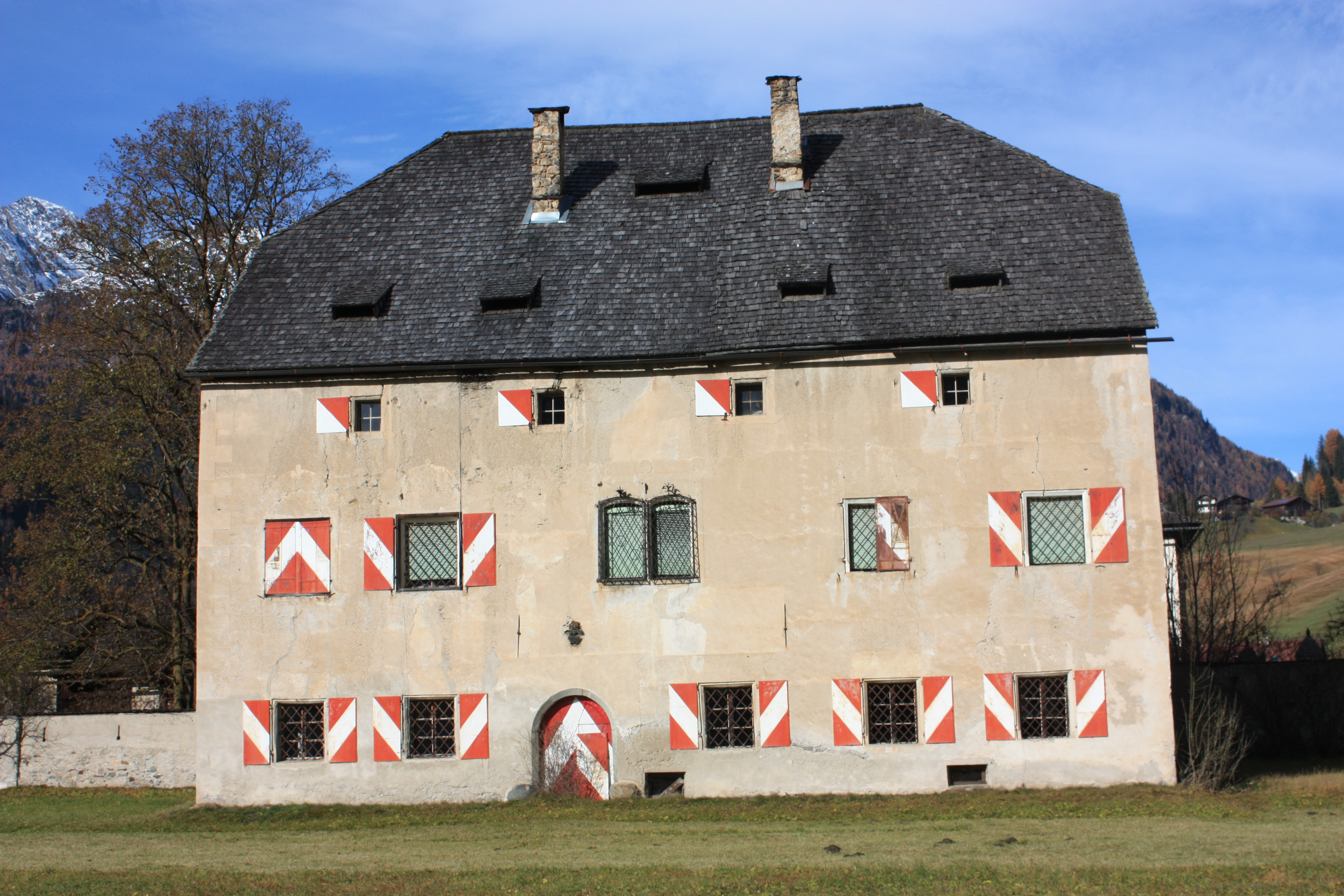 Großkirchheim-castle - Southern tract Locality: Döllach Community:Großkirchheim